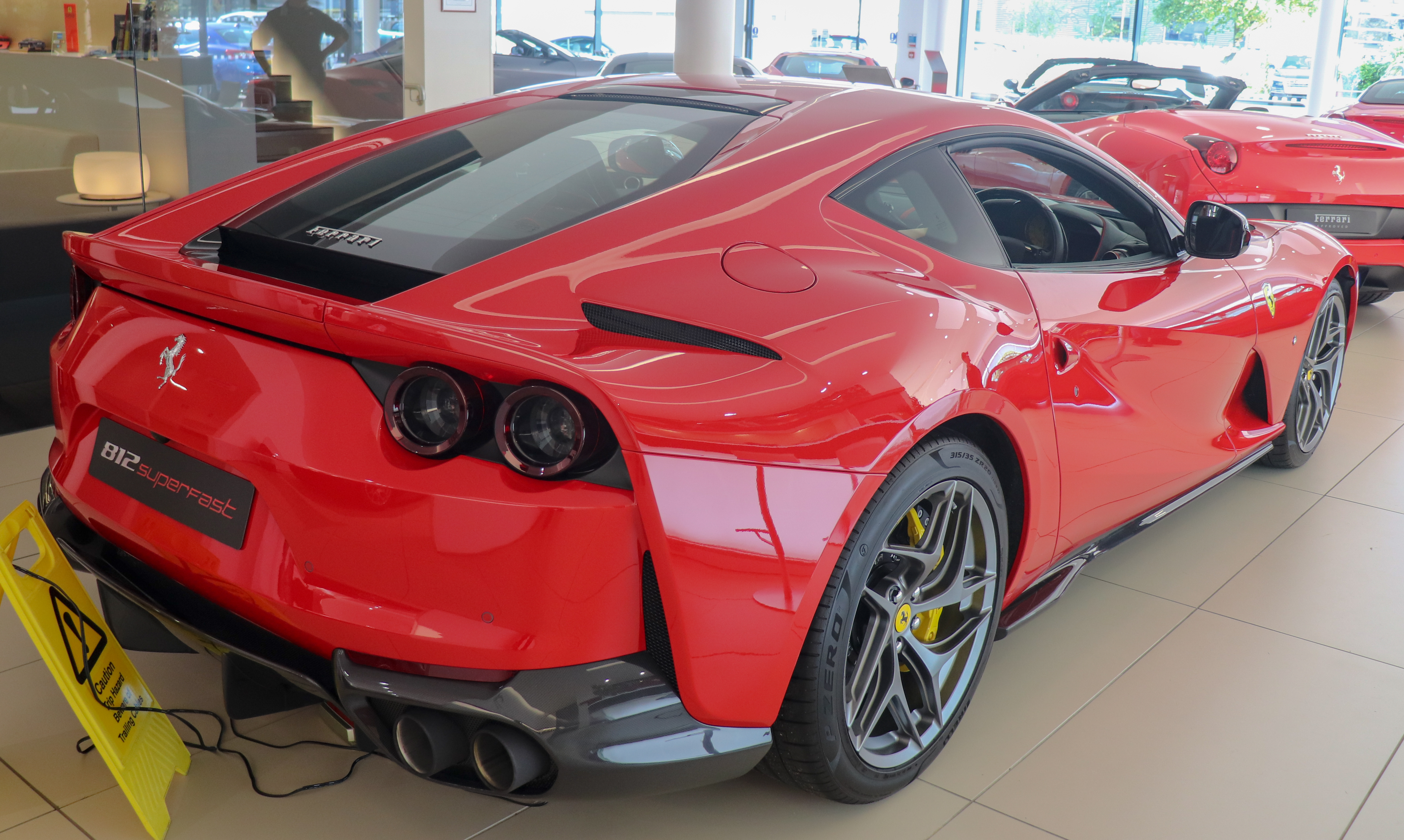 2018 Ferrari 812 Superfast 6.5 Rear Taken in Solihull